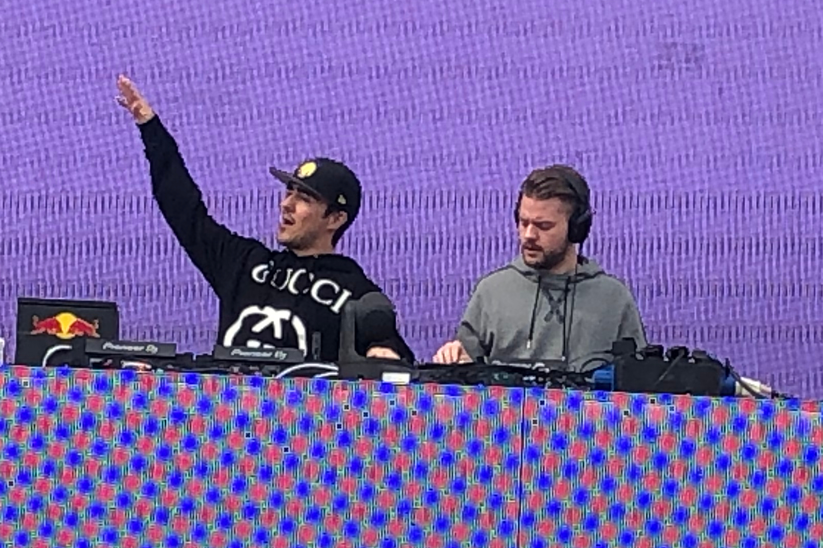 Swedish dj duo Dimitri Vangelis & Wyman playing live at Airbeat One Festival 2019 in Neustadt-Glewe, Germany.